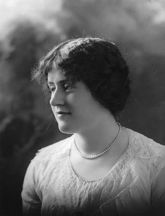 Photograph, Miss Therese Forget, Montreal, QC, 1914, Wm. Notman & Son, Silver salts on glass - Gelatin dry plate process - 17 x 12 cm